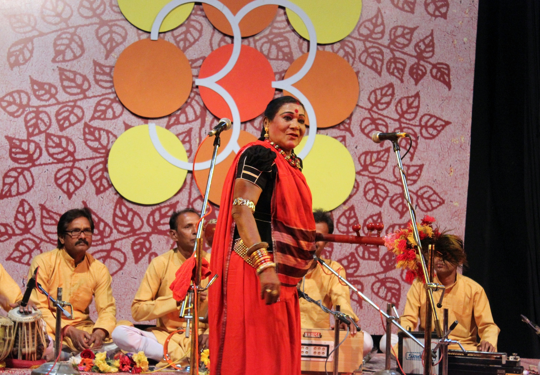 Teejan Bai performing at Bharat Bhawan Bhopal